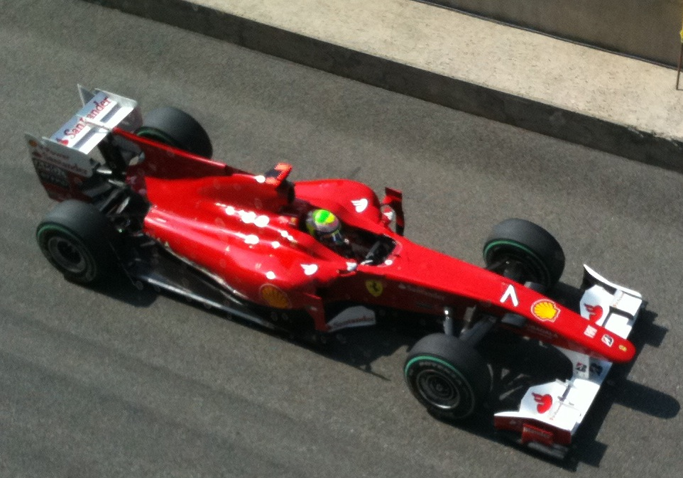 Felipe Massa driving for Scuderia Ferrari at the 2010 Italian Grand Prix.